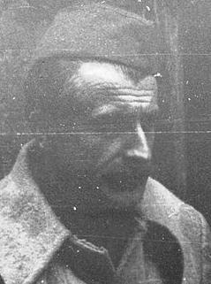 Cropped image of Skender Kulenović from: File:Vladimir Velebit, Skender Kulenović, Đuro Pucar Stari i Vaso Butozan.jpg